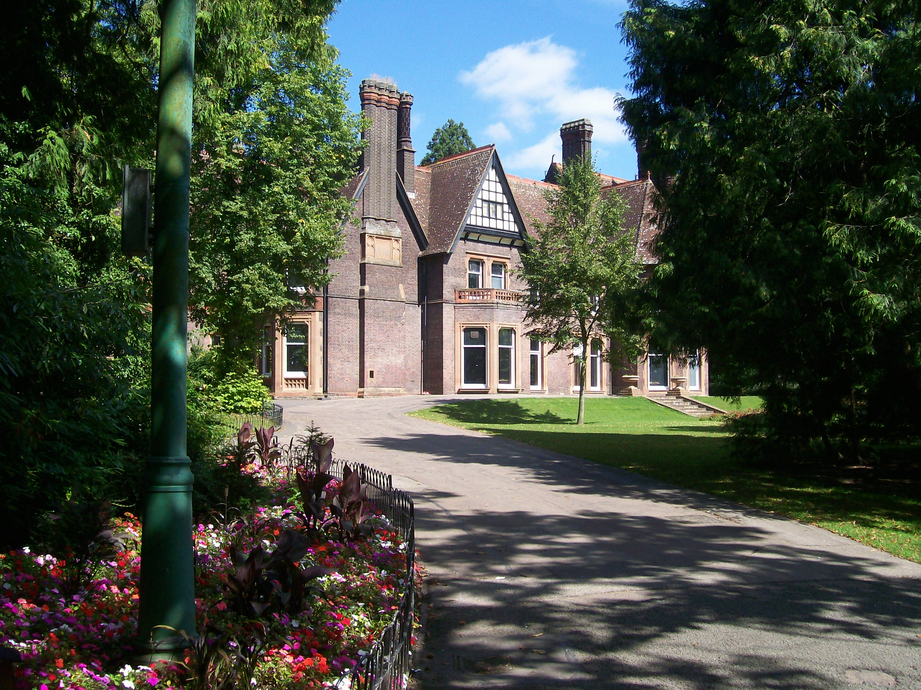 Luton Museum and grounds. Uploaded by photographer.